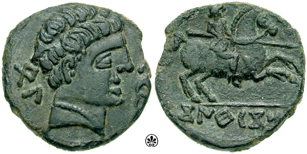 Spain, Konterbia-Karbica (Segobriga). After 133 BC. Æ As. Male head right; dolphin before, letters behind Horseman right, carrying lance. Villaronga pg. 284, 1 var. (letters behind head); Burgos 647